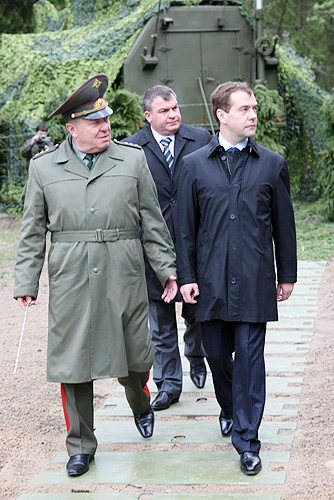 TEIKOVO, IVANOVO REGION. At the 54th Division of the Strategic Missile Forces. With Nikolai Solovtsov, the commander of the Strategic Missile Forces, and Minister of Defense Anatoly Serdyukov.